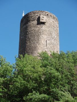 Bayart Tower in Saillon, Switzerland